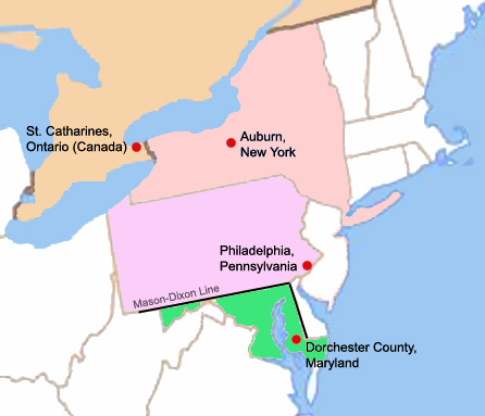 A map of four key locations in the life of Harriet Tubman